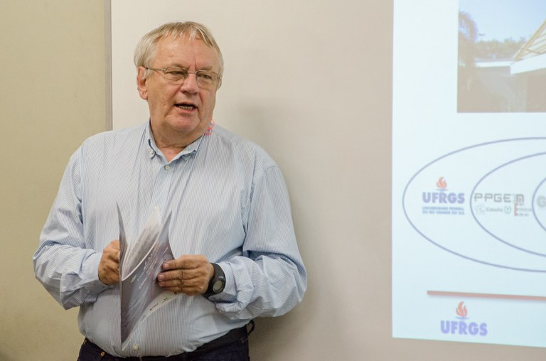 Professor Telmo Roberto Strohaecker - Foto: Ramon Moser/UFRGS